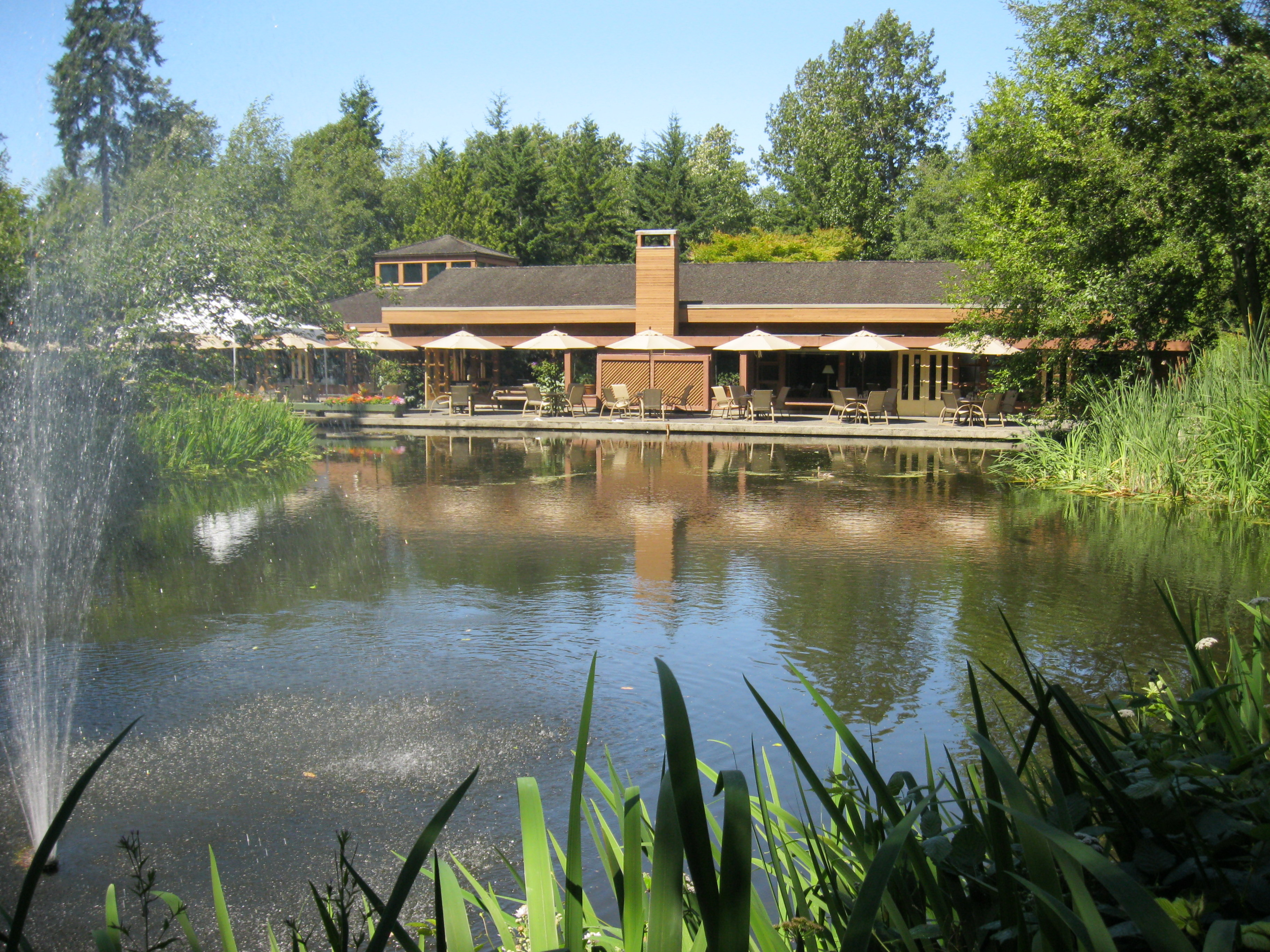 University club pond. READ INFO IN PANORAMIO/COMMENTS